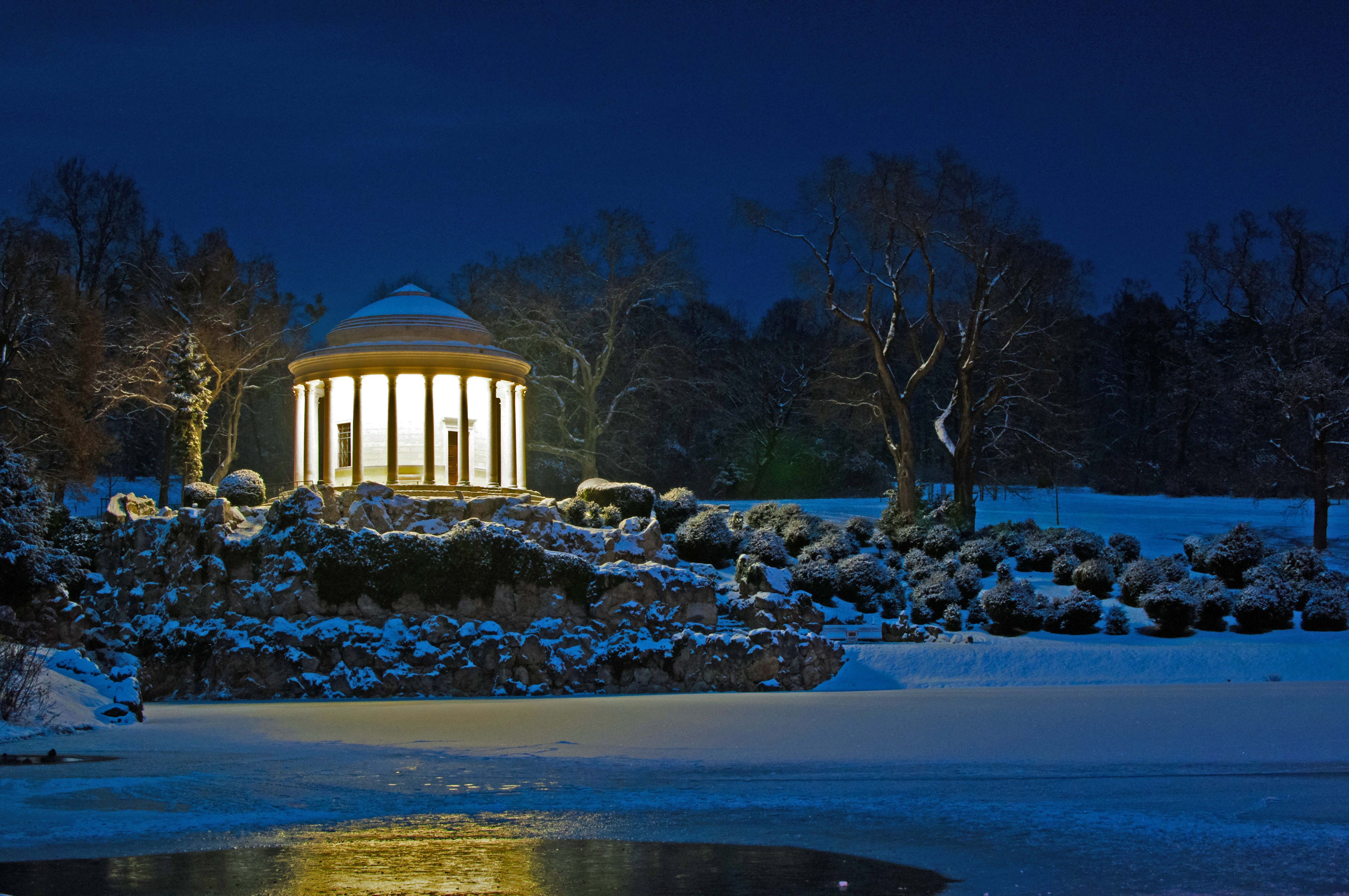 Leopoldinentempel in Eisenstadt, Austria